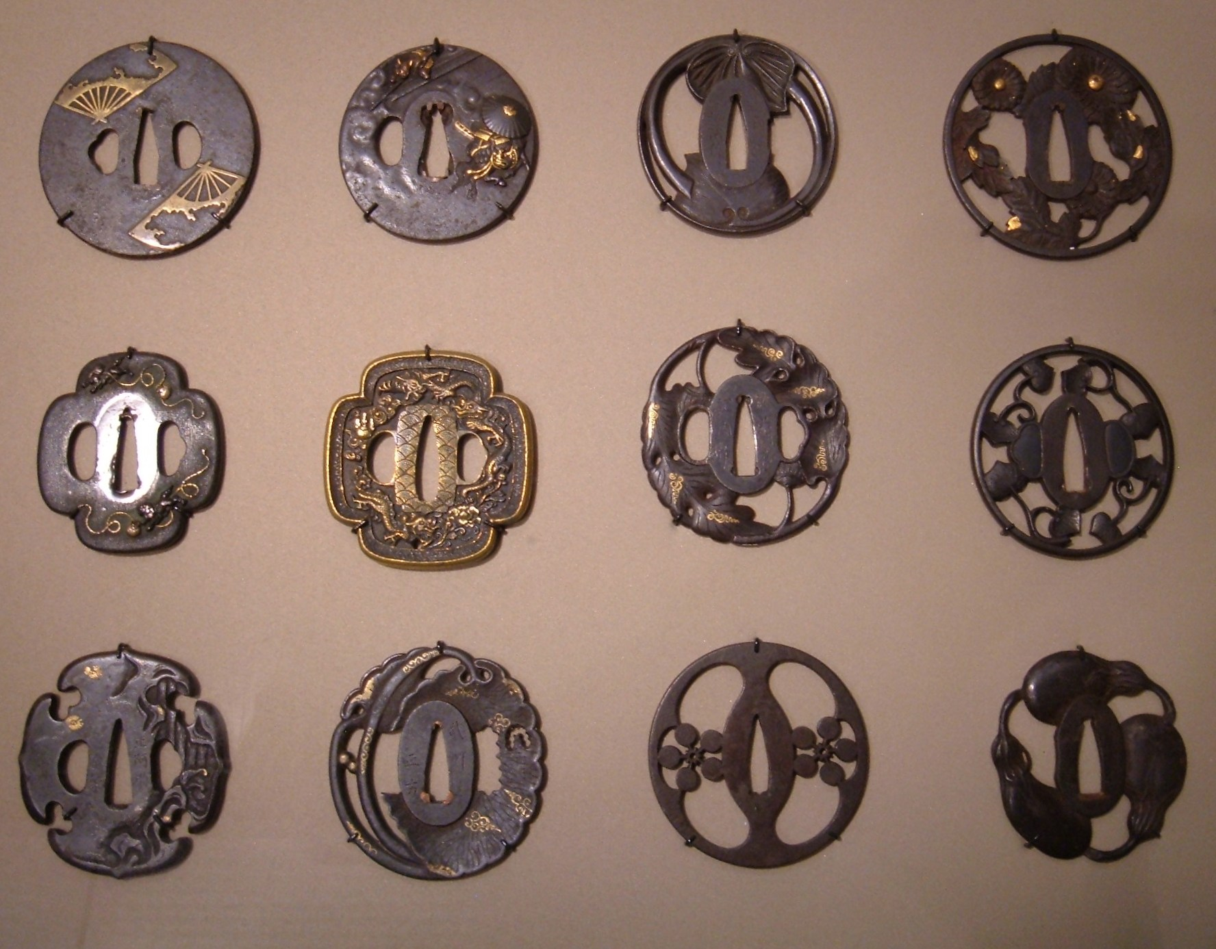 Tsuba on display at the Asian Art Museum in San Francisco, California.